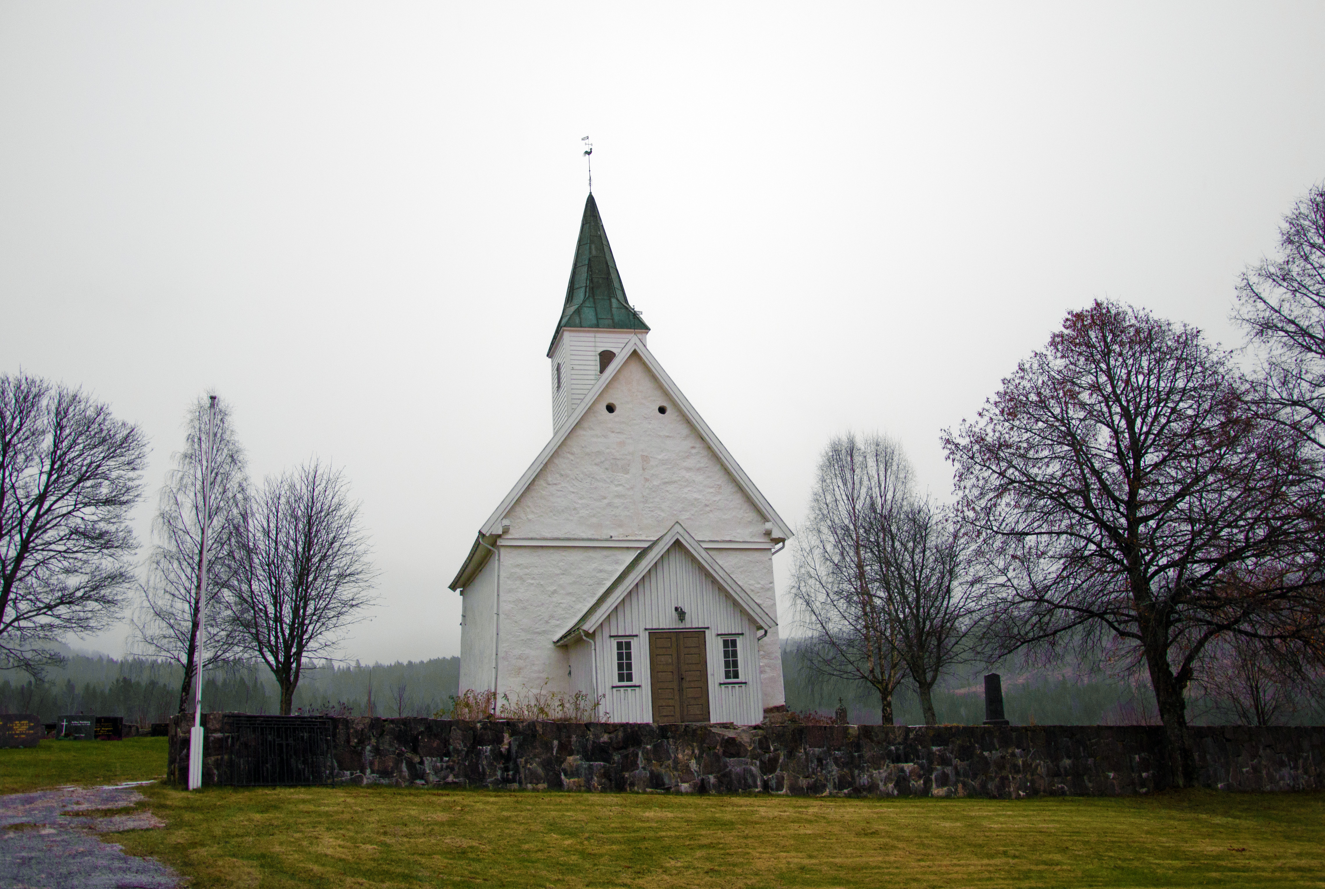 Hem Church in Lardal, Vestfold, Norway. Built in the year 1392.